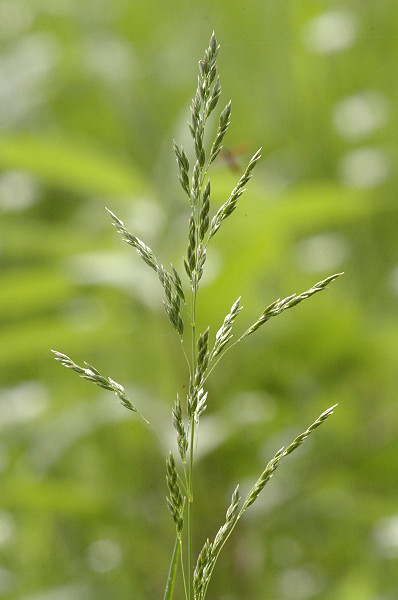 Picture taken in Commanster, Belgian High Ardennes . Species: Poa nemoralis